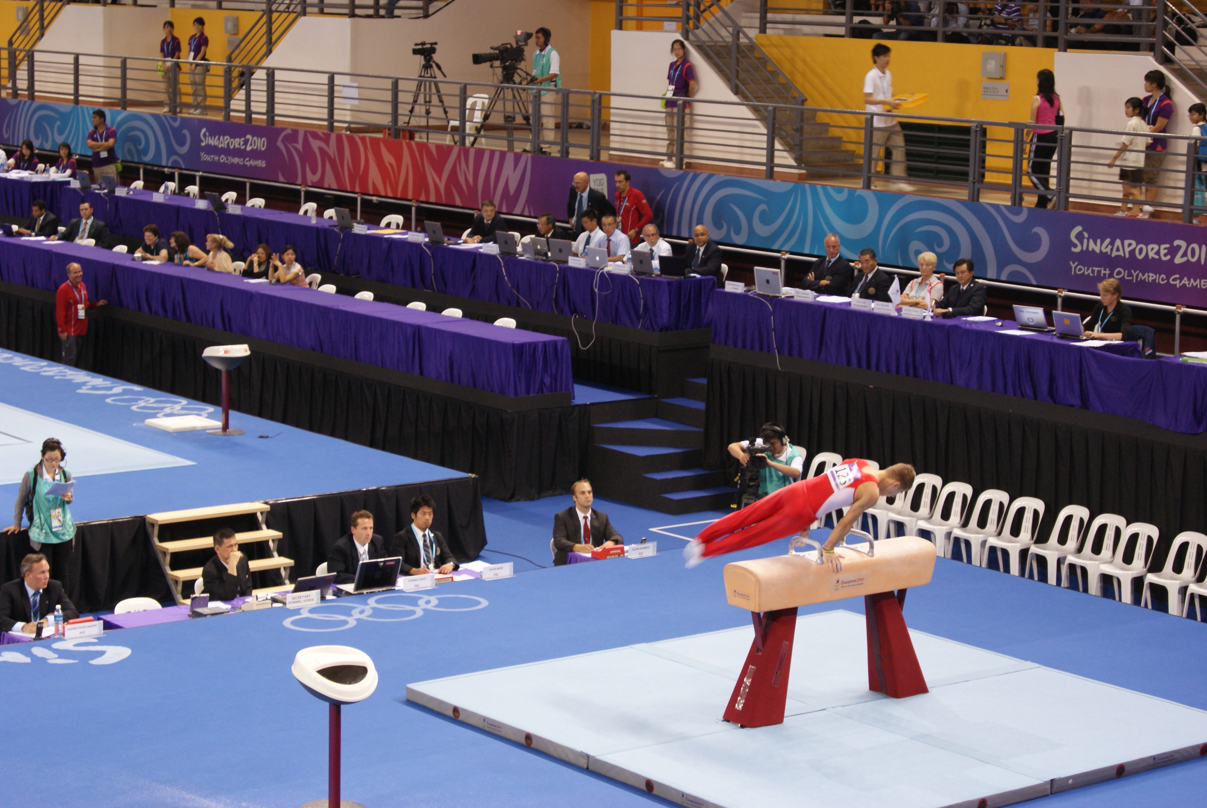 Lithuanian gymnast Robertas Tvorogalas on the pommel horse during Men's Qualification – Subdivision 1 of the artistic gymnastics competition at the 2010 Summer Youth Olympics at Bishan Sports Hall, Singapore.